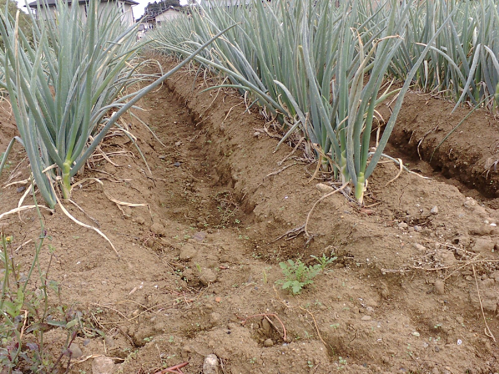 une(Japanese)(ridge)which is between plowed furrows, cultivating Welsh onoin or Scallion